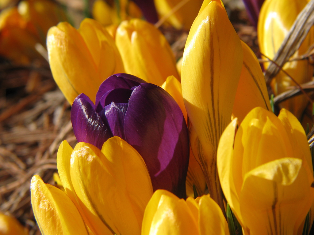 A Glimpse Of The Near Future